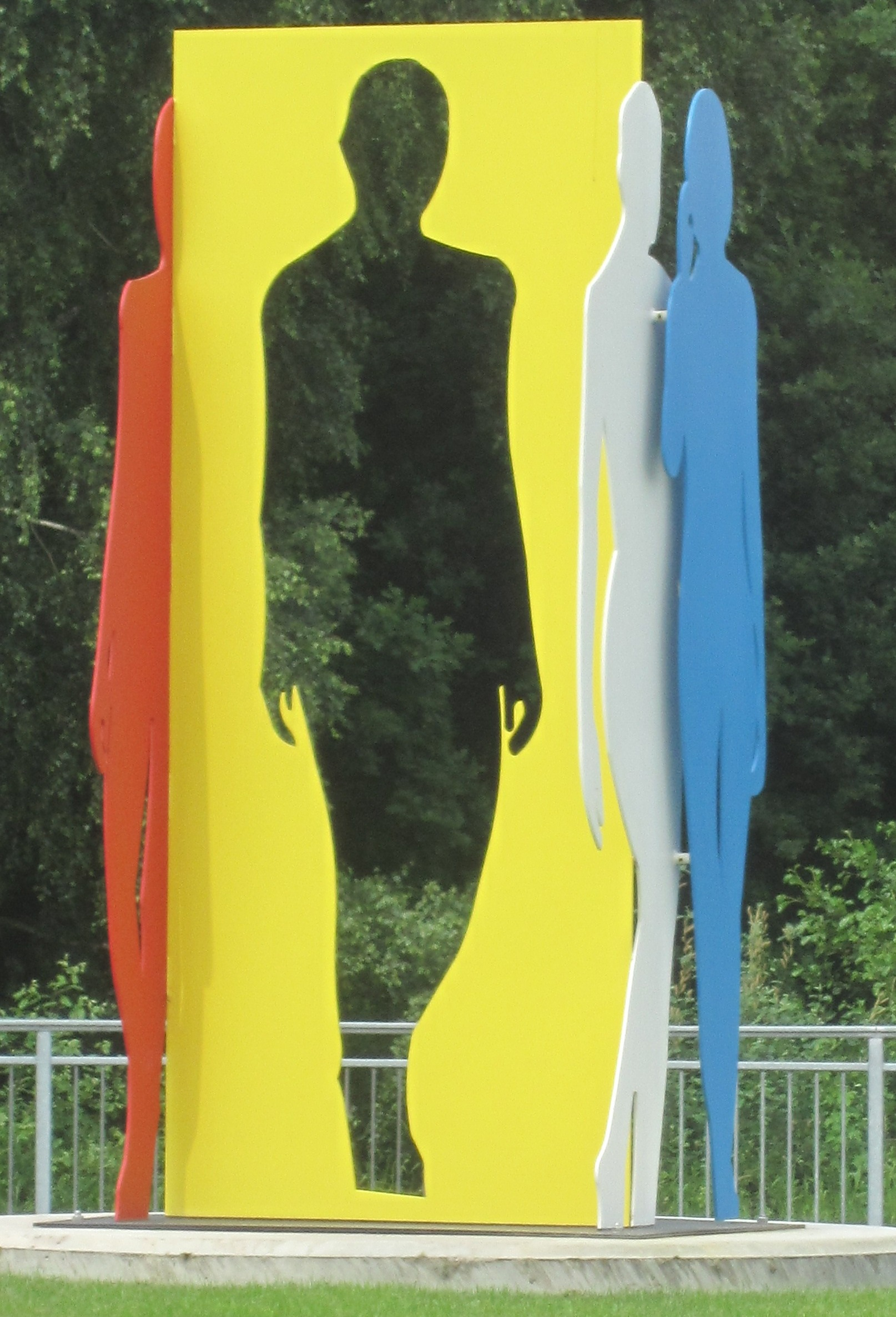 Sculpture "Jede Menge Leute" by Werner Berges in the middle of a roundabout in Lohne (Lower Saxony)